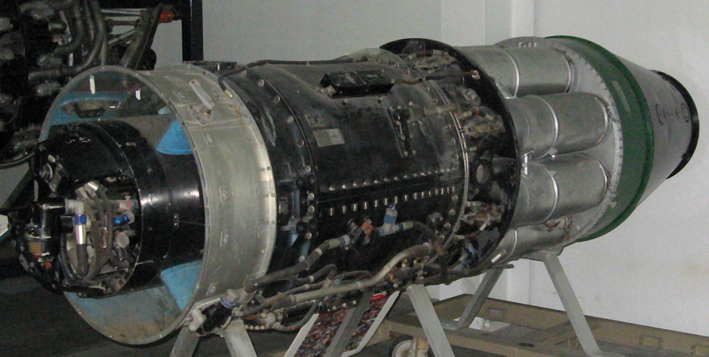 General Electric J47-GE-11 turbojet, Strategic Air & Space Museum, Nebraska / 2008